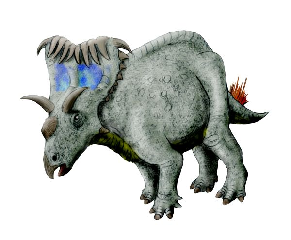 Kosmoceratops